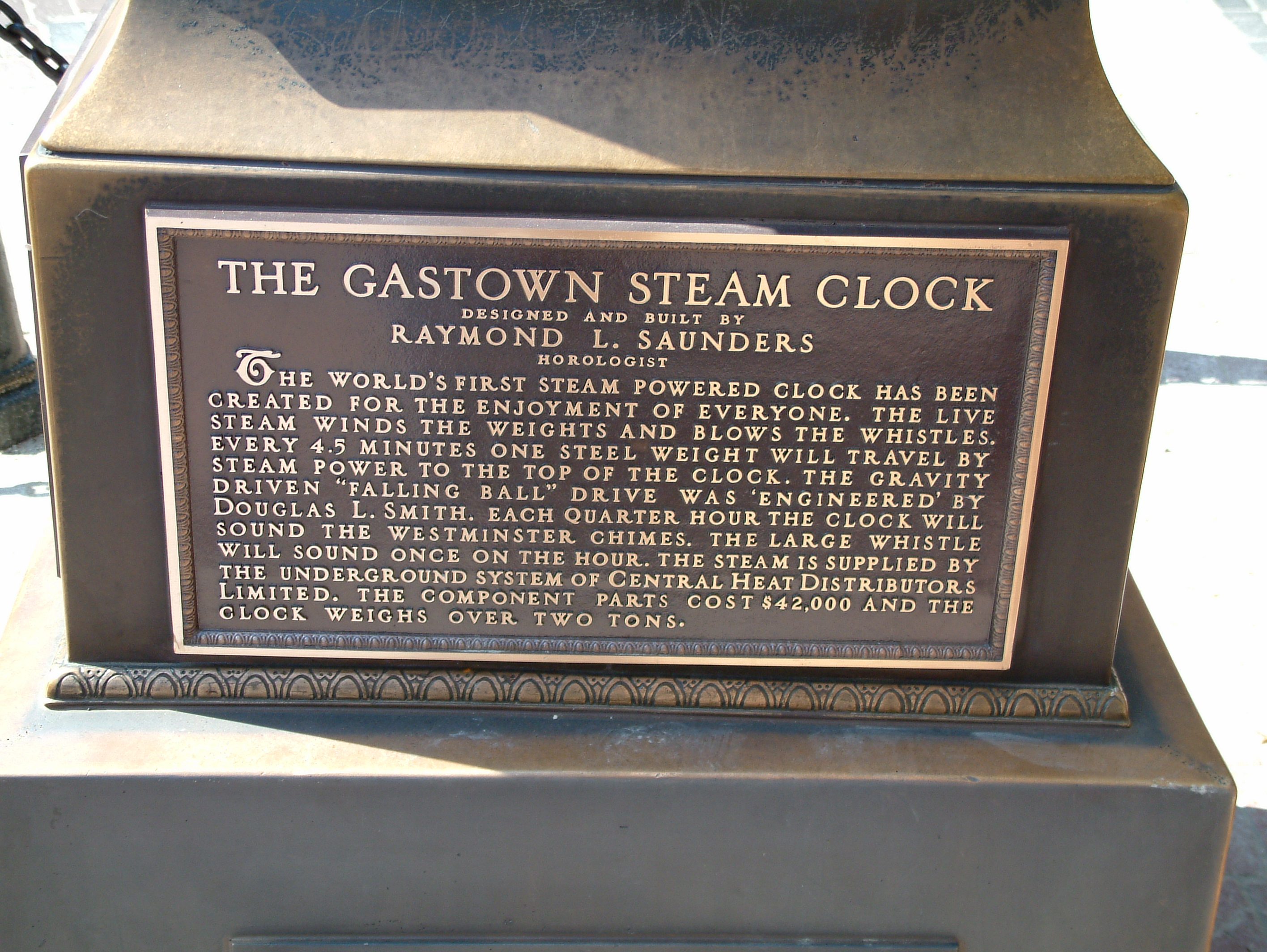 Photograph of a plaque on the Gastown Steam Clock